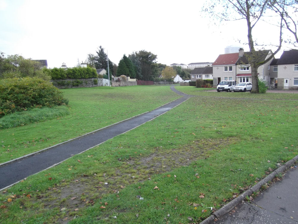 Ballochney Railway route looking towards Hallcraig Street railway terminus in Airdrie, Lanarkshire UK; railway passed under the road where photographer was standing by a bridge